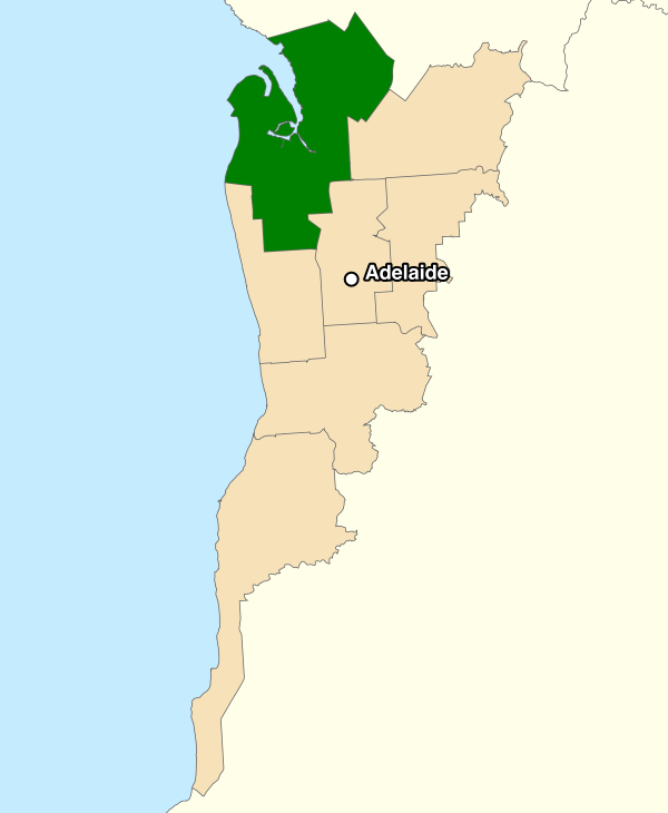 The Division of Port Adelaide (dark green) in Adelaide, South Australia. This image incorporates data that is: © Commonwealth of Australia (Australian Electoral Commission) 2014